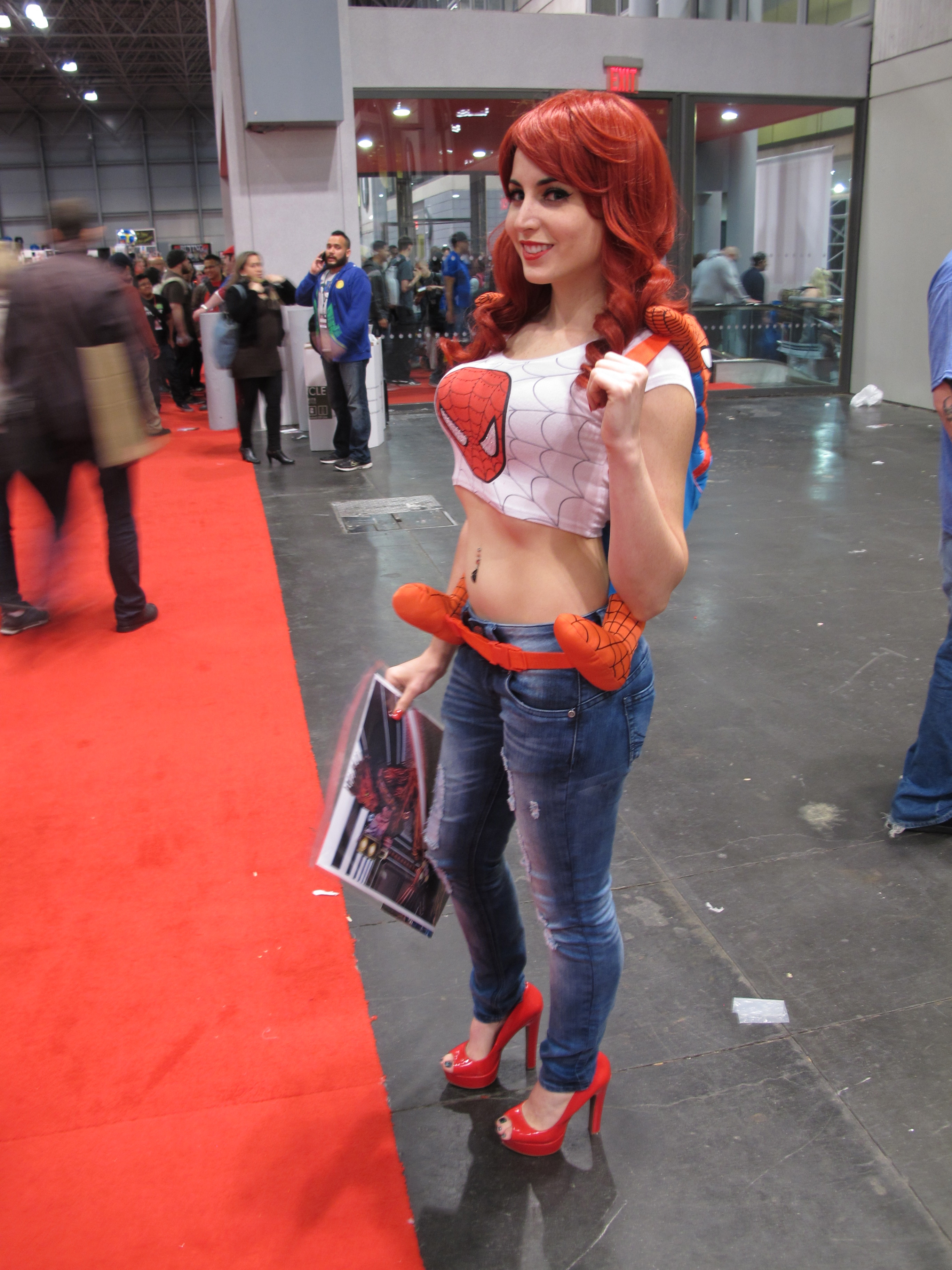 Cosplay at the 2014 New York Comic Con.